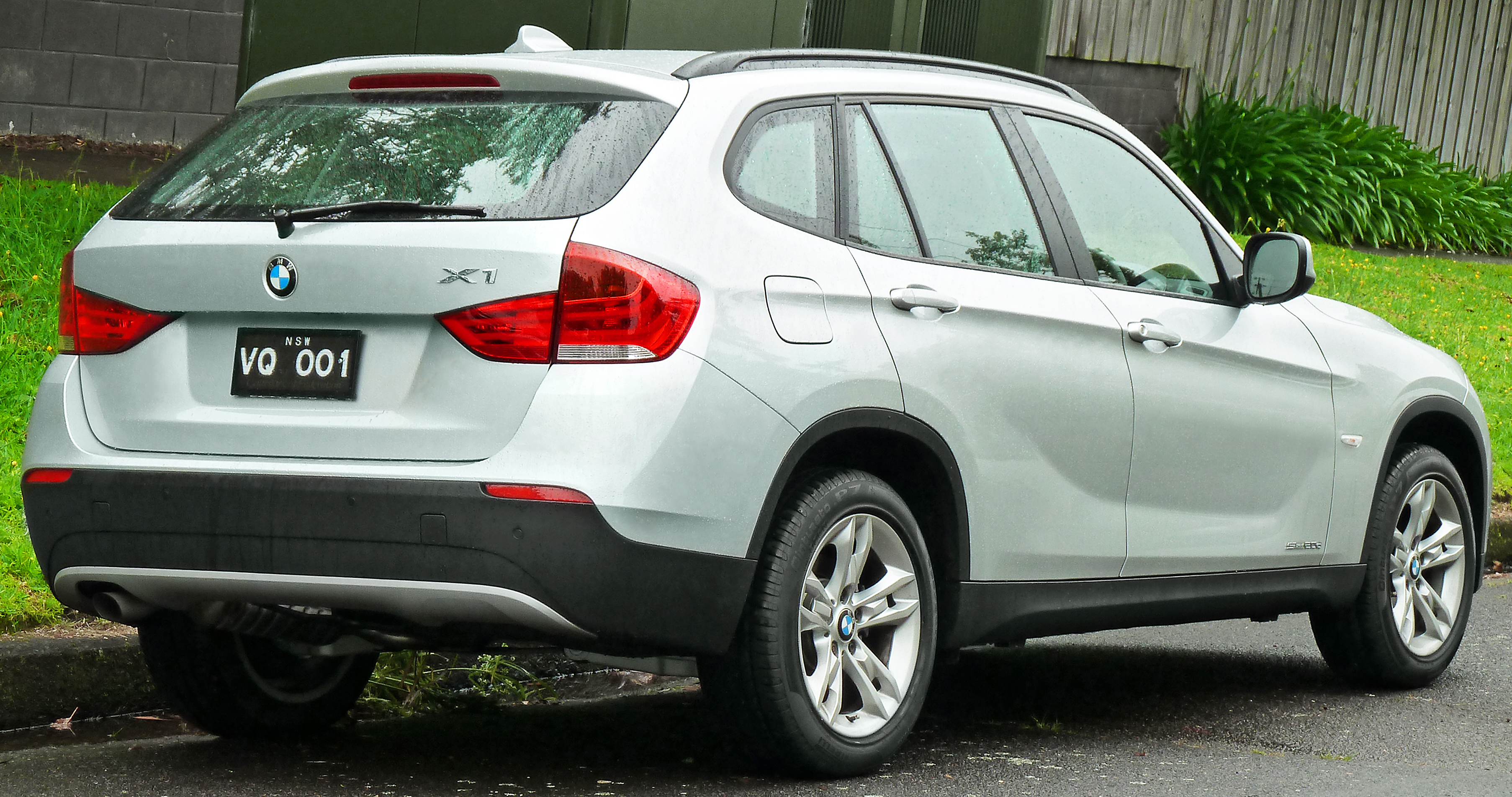 2011 BMW X1 (E84) sDrive20d wagon. Photographed in Roseville, New South Wales, Australia.